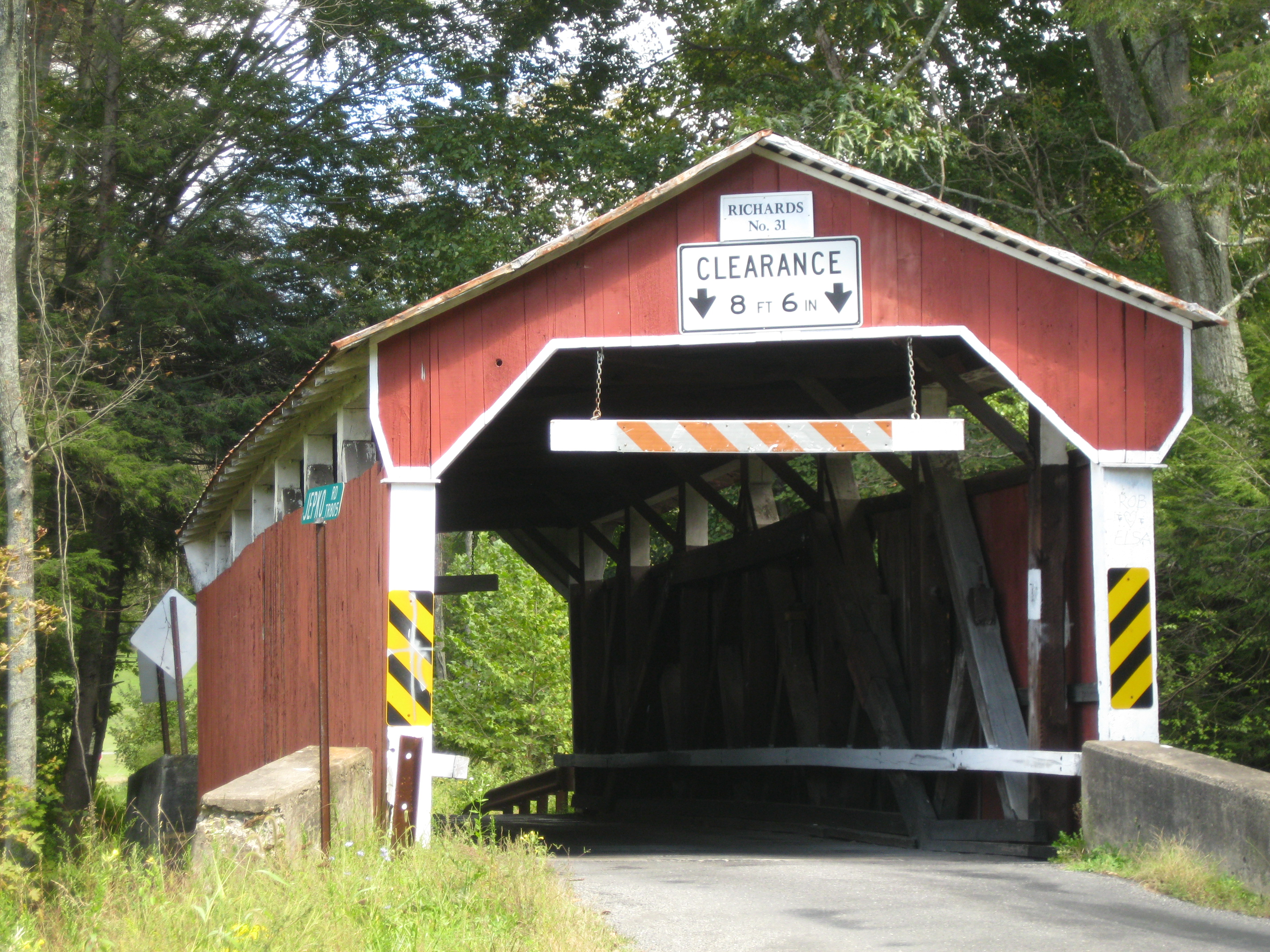 Richards Covered Bridge built in 1852 over the South Branch of Roaring Creek between Cleveland Township in Columbia County, Pennsylvania and Ralpho Township in Northumberland County, Pennsylvania, in the United States.